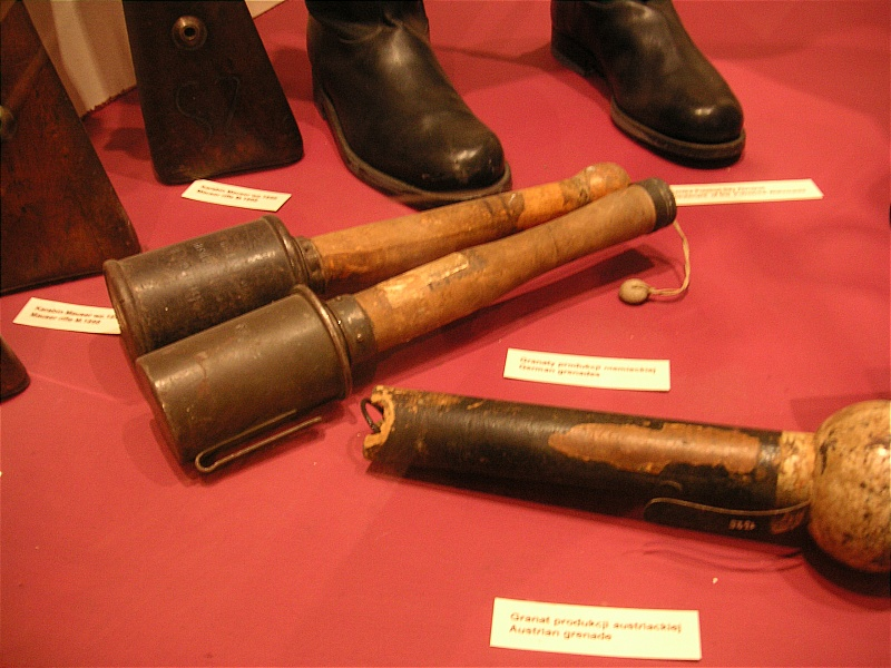 made during a summer day in the Museum of the Polish Army in Warsaw German WWI Stielhandgranate, or stick grenade